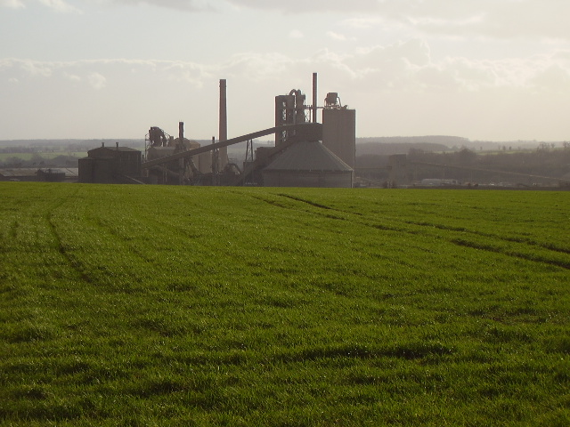 Views south across the fields Castle Cement's works at Ketton dominate the landscape for miles around